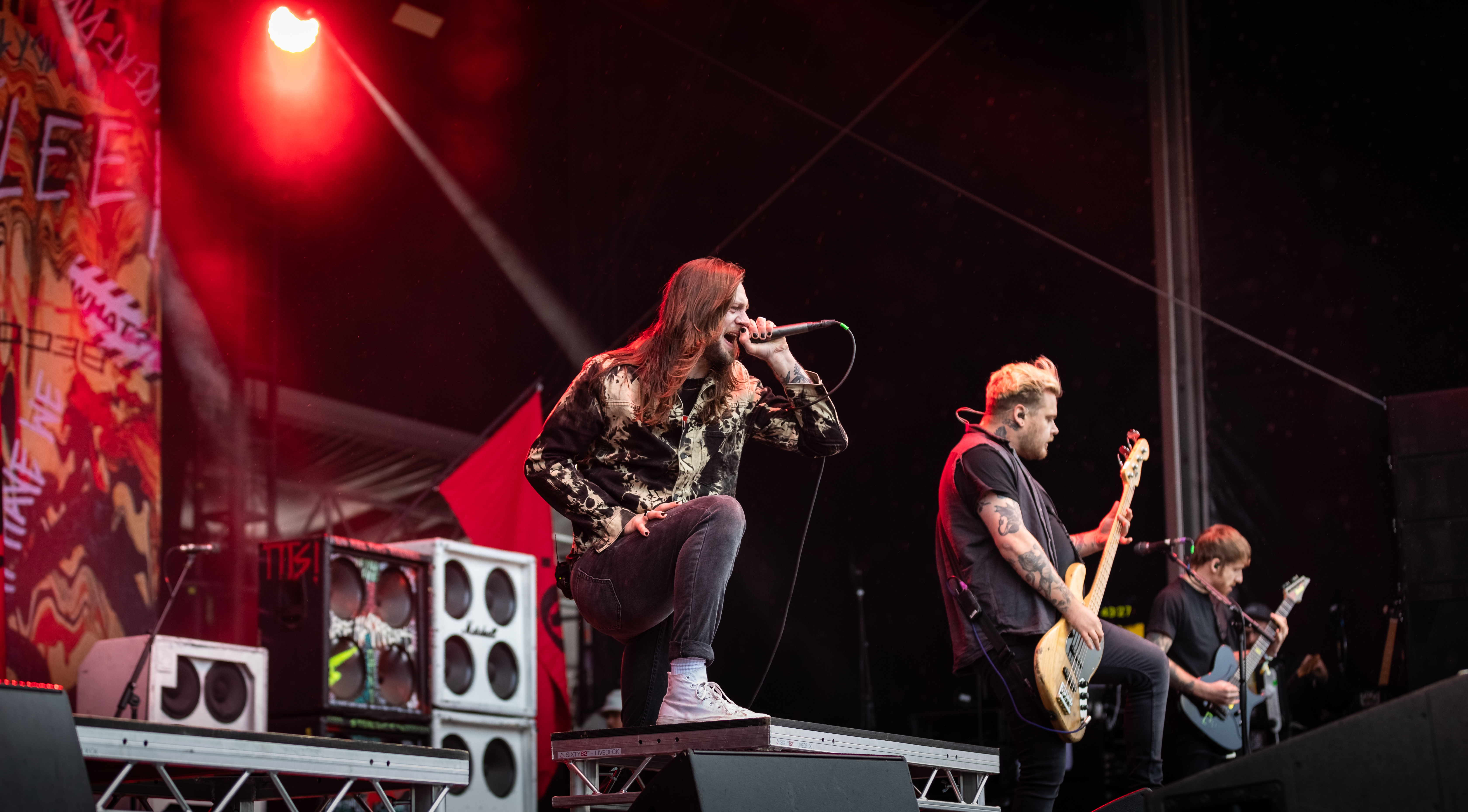 While She Sleeps - Rock am Ring 2019